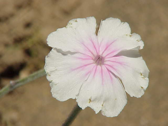 Species: Lychnis coronaria Family: Caryophyllaceae Image No. 1